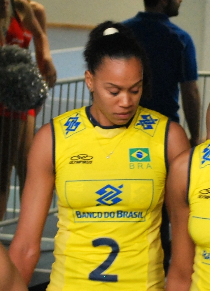 Juciely Cristina Barreto, volleyball player from Brazil